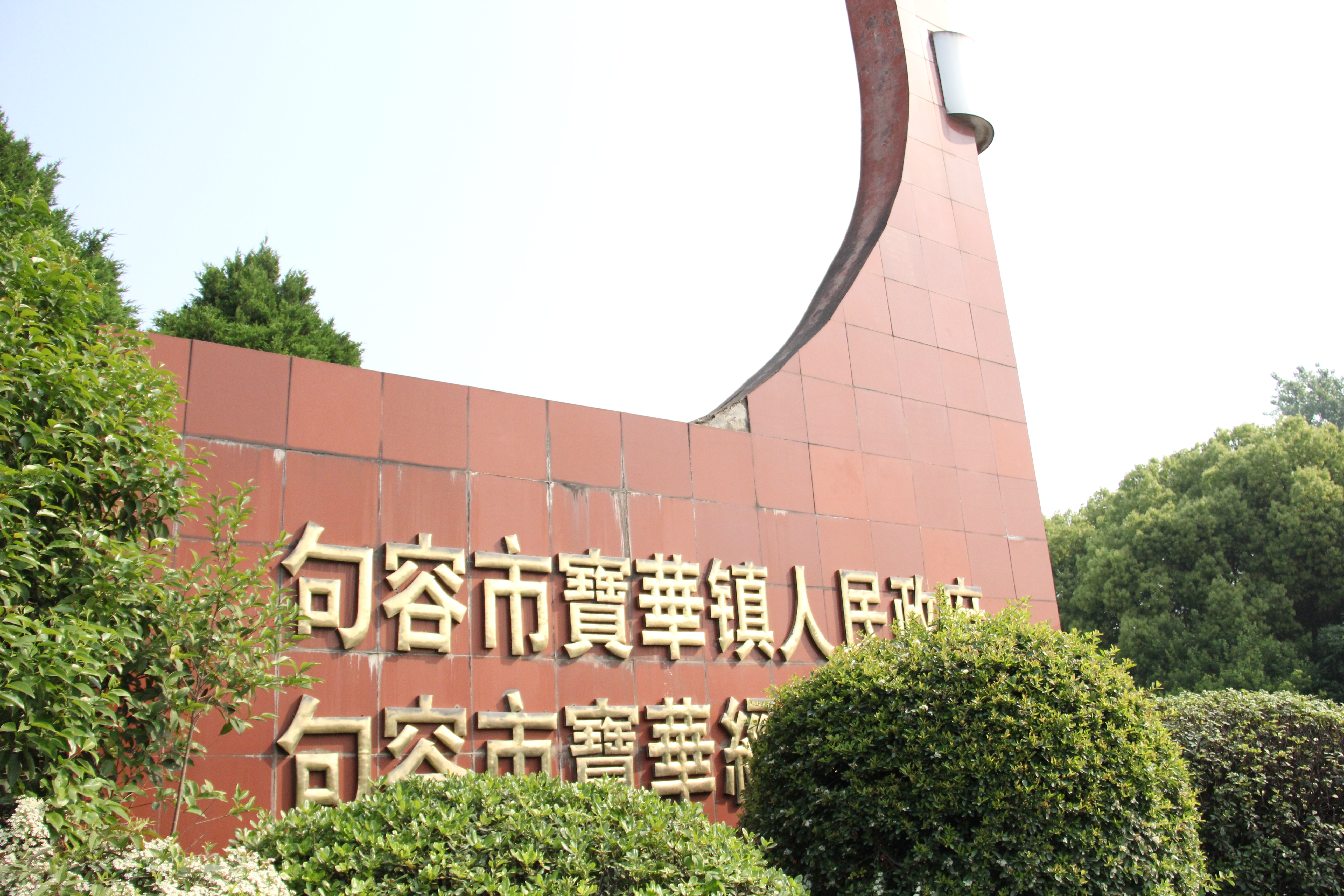 201604 Government of Baohua Town